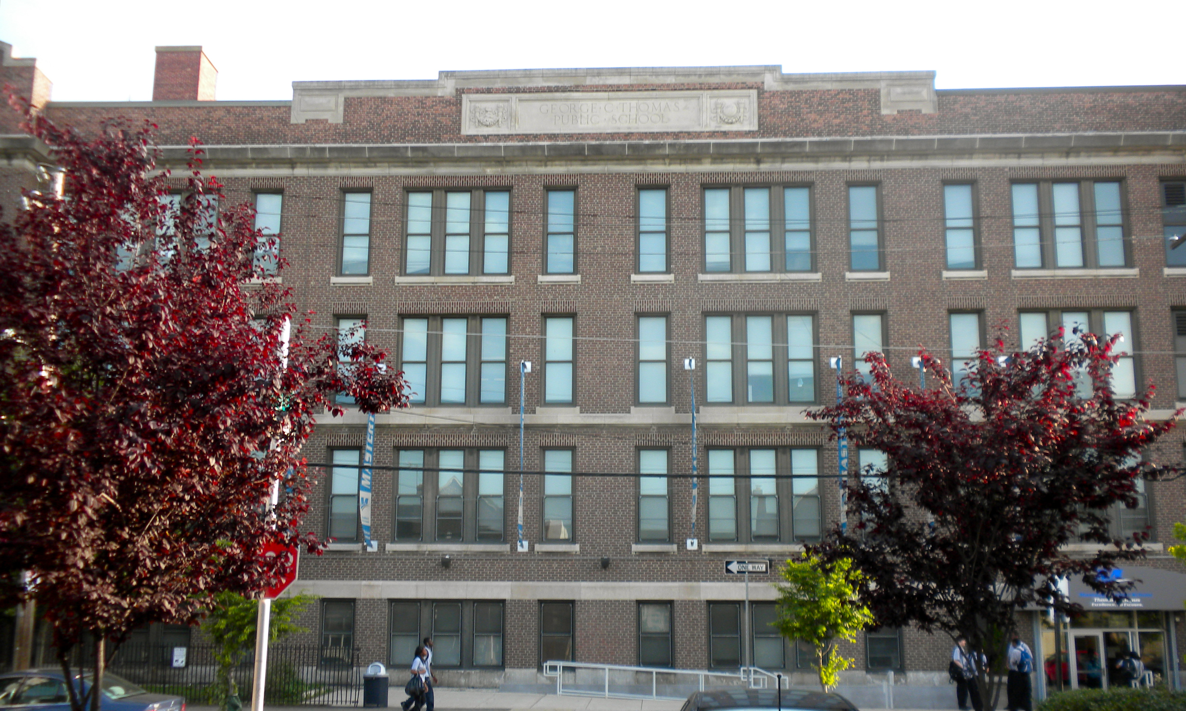 George C. Thomas Junior High School on the NRHP since November 18, 1988. At 2746 South 9th Street in East Oregon section of south Philadelphia, PA. Note that a very similar school in date and architecture,Newlin Fell HS , also on the NRHP is located on the north half of the block and this on the south half.